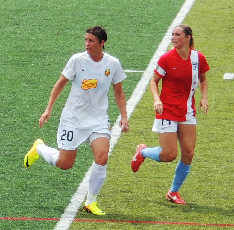 2013-07-04; Chicago Red Stars vs Western New York Flash; Taryn Hemmings and Abby Wambach